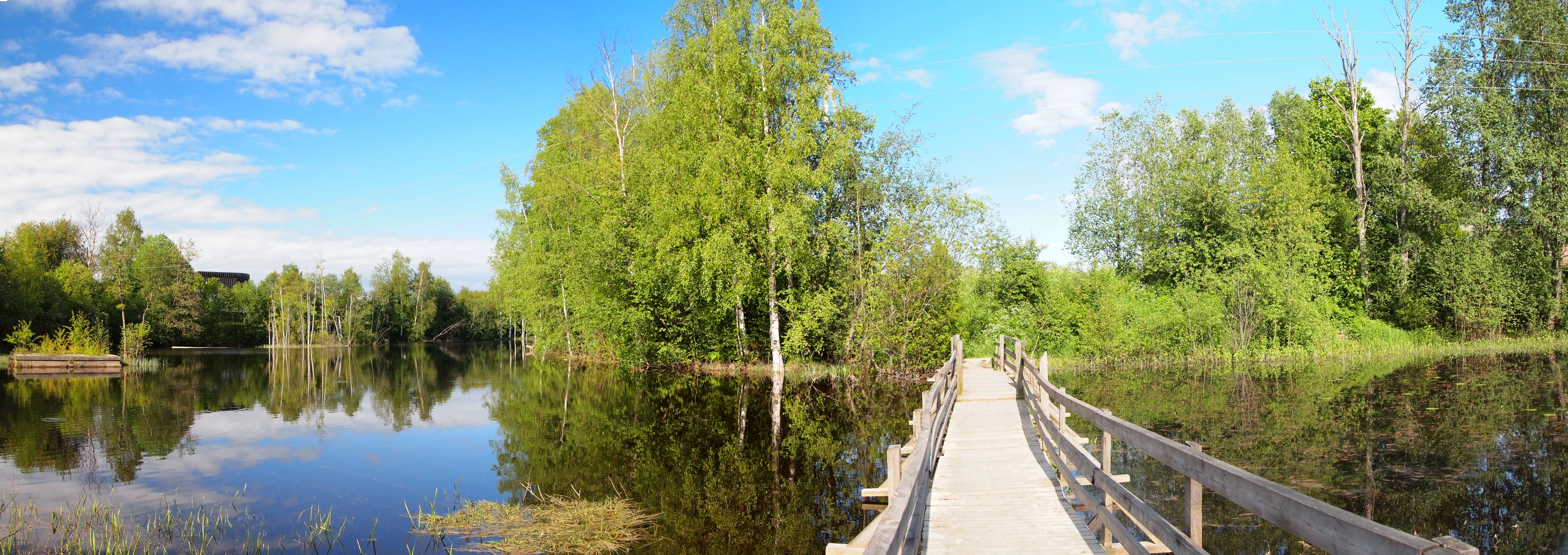 A bridge along the nature trail in Muurame. This photograph was taken with an Olympus E-PL1